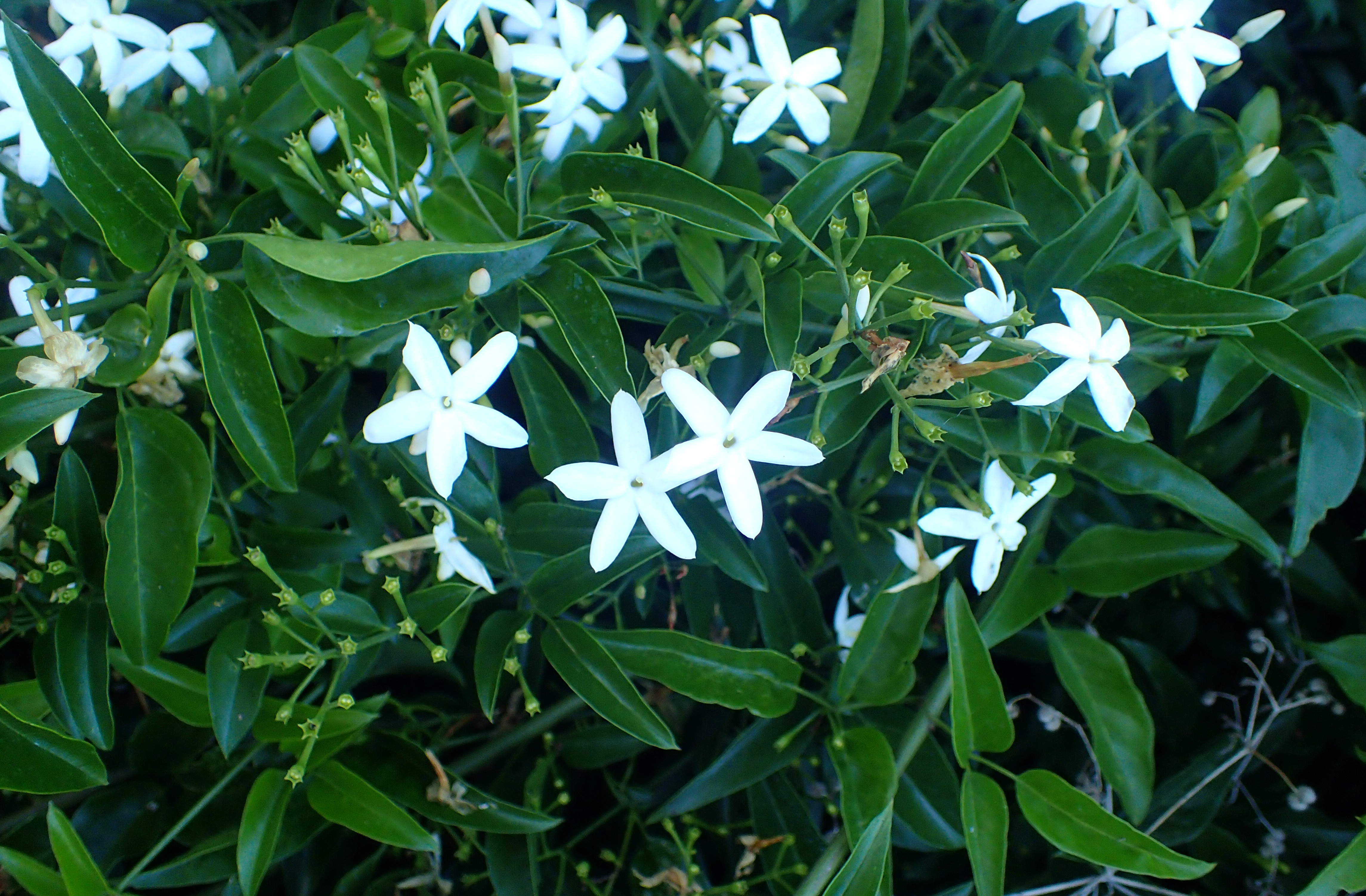 Jasminum azoricum in the San Francisco Botanical Garden